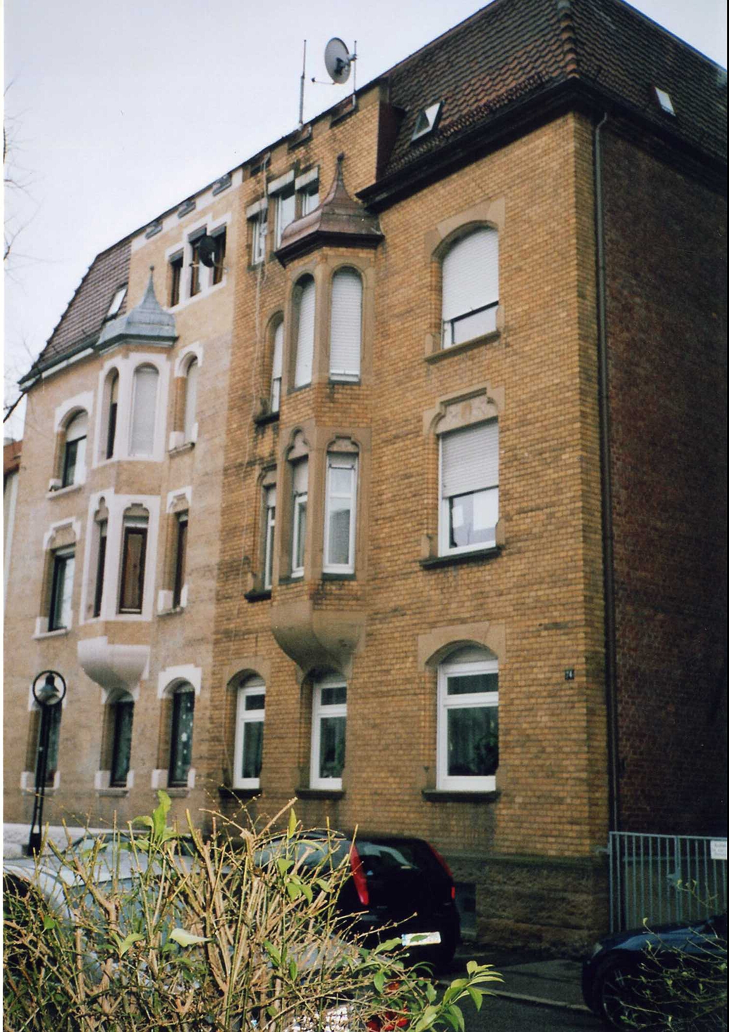 Heilbronn